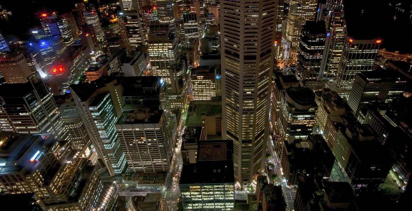 Sydney CBD at night